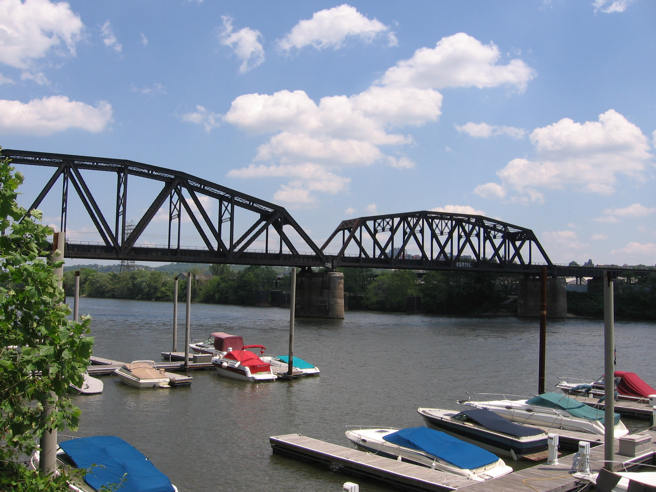 Baltimore and Ohio Railroad Bridge at 33rd Street and Herr's Island crossing the Allegheny River in Pittsburgh, PA. The downstream side of the 33rd Street Railroad Bridge.